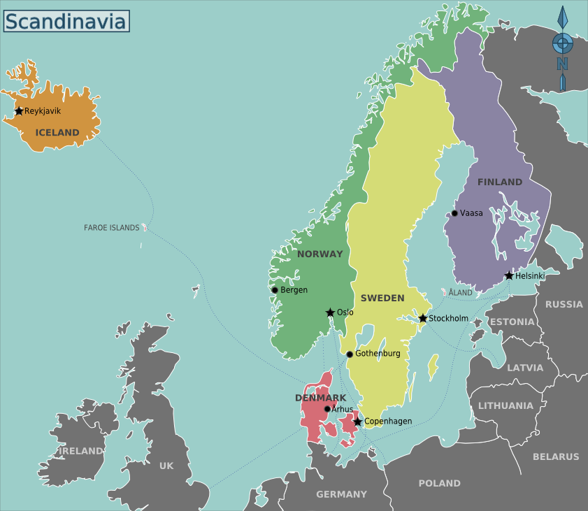 Wikivoyage-style map of Scandinavia.